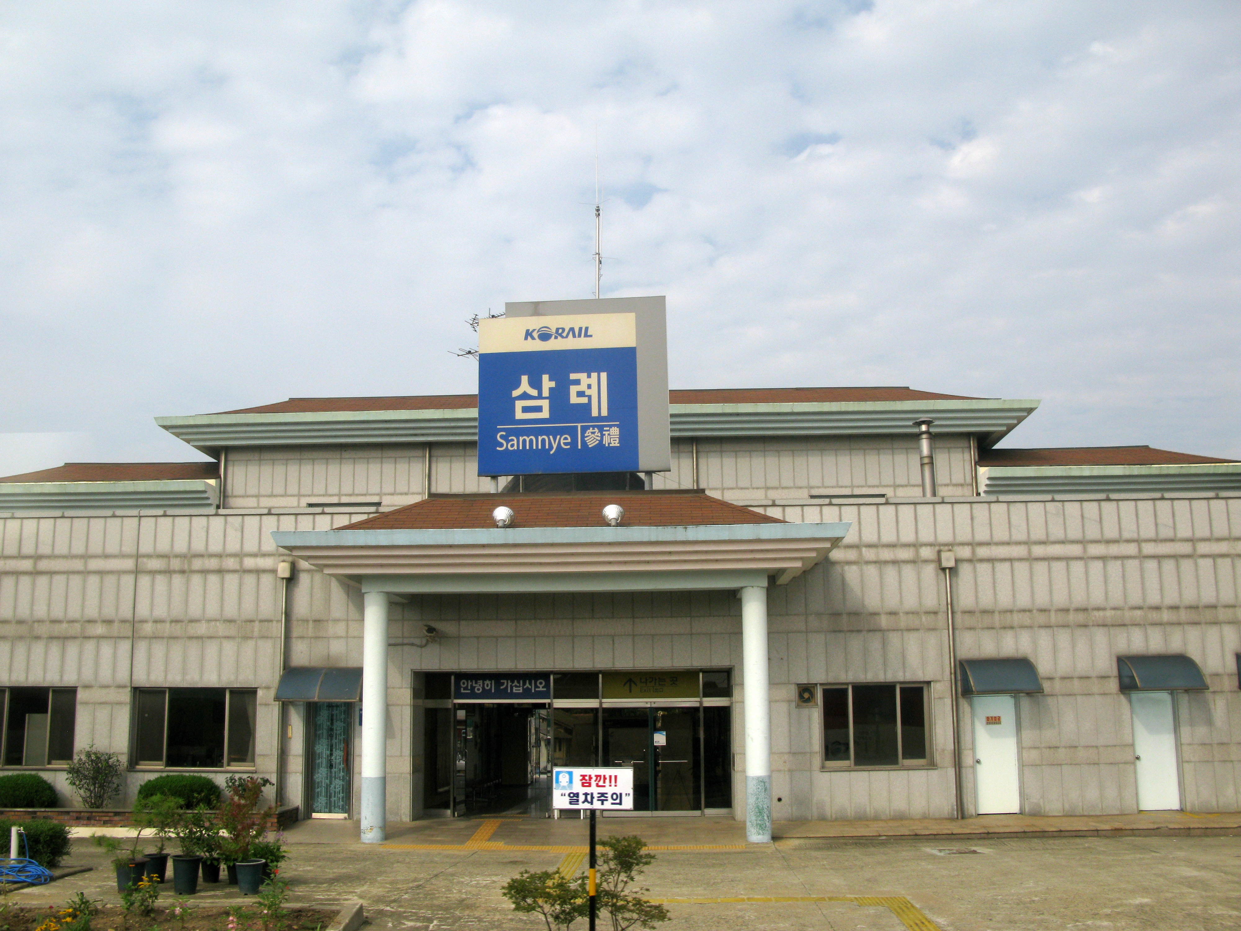 Jeolla Line Samnye Station